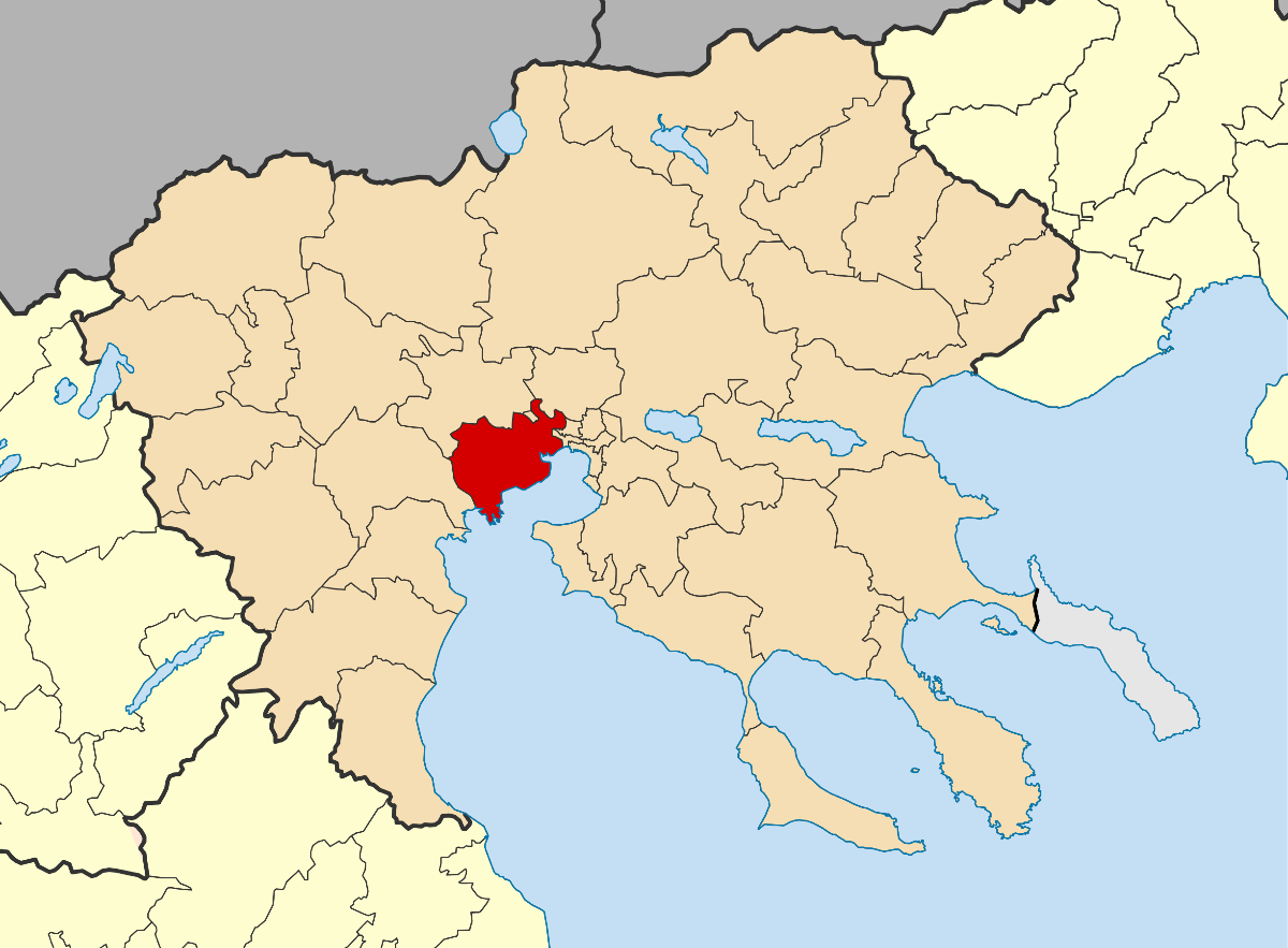 Locator map for Delta municipality in Greek region Central Macedonia (2011)